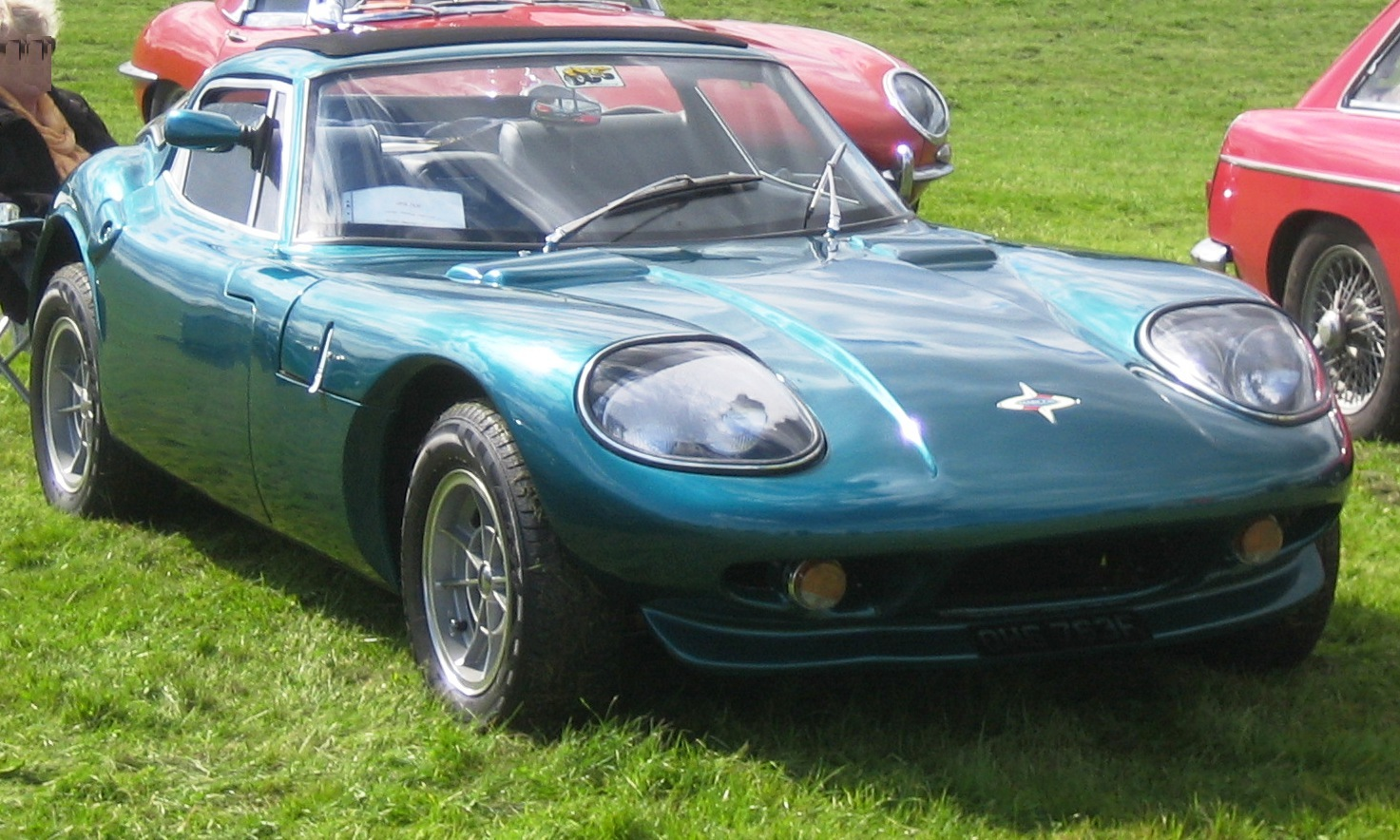 The Marcos 1800 was originally Volvo engined, though later versions used British Ford engines, possibly in response to UK currency devaluations. This is a 1967 Lawrencetune Marcos 1650 GT, one of only 32 (or 20?) built. All were built in 1967, when the 1500 (and 1650) were both replaced by Ford's new crossflow 1600 engine. First registered in February 1968.